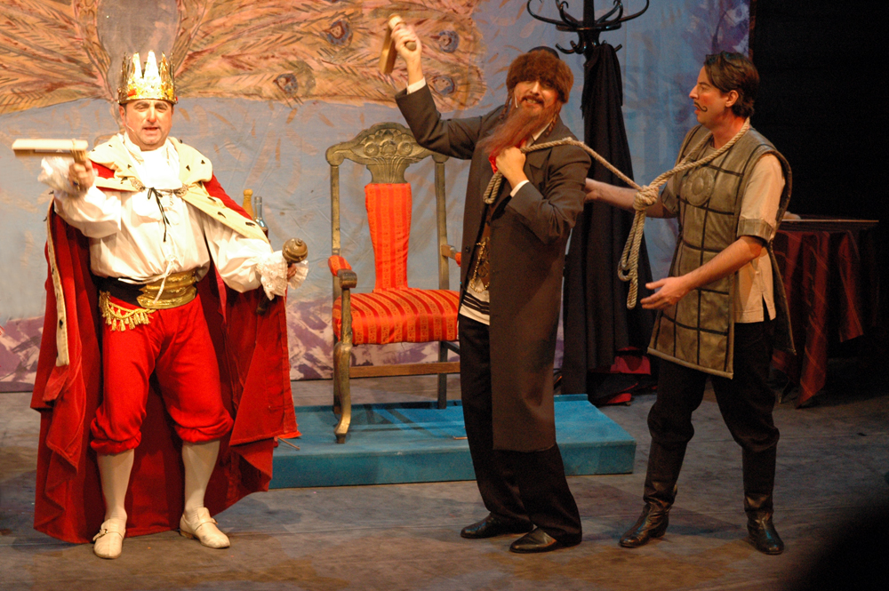 Traditional theatre performance on Purim holiday, March 2009 in Teatr Zydowski, Warszawa, Poland